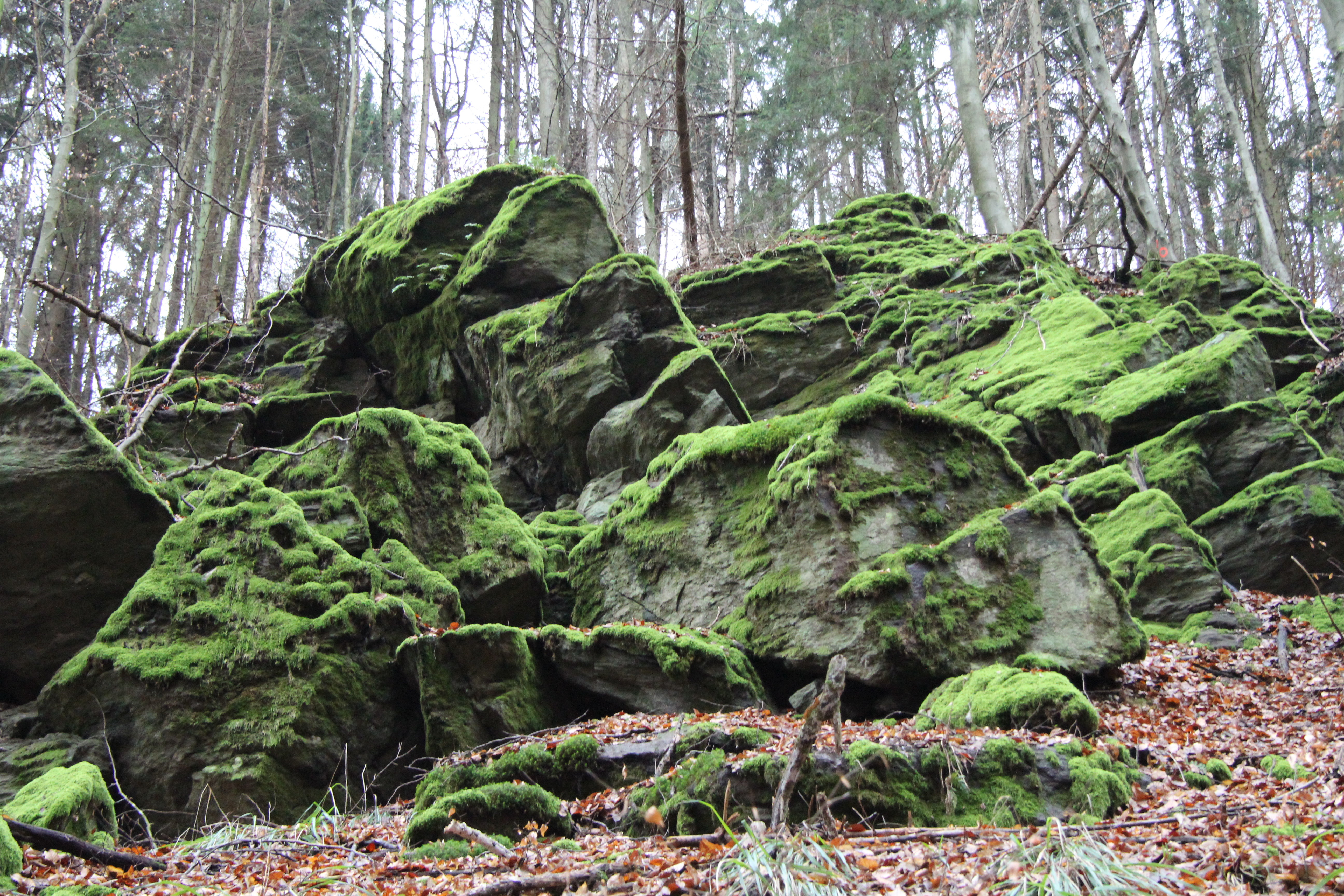 Rock formation in the Rueckersbach Canyon, Bavaria/Germany